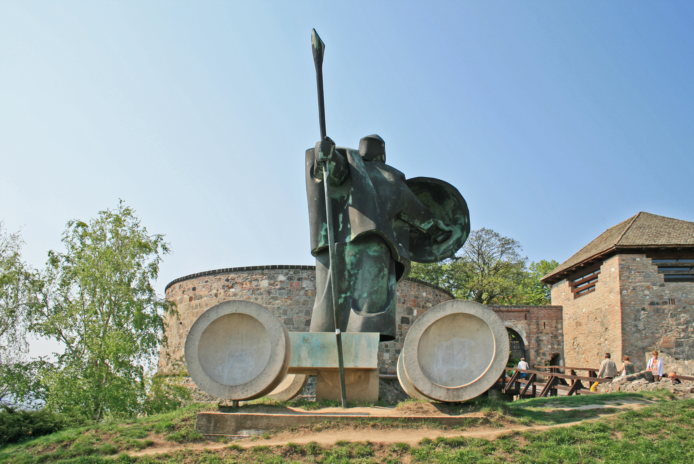 Statue near the entrance into Esztergom castle, Esztergom, Hungary. Sculptor: Tamás Vígh